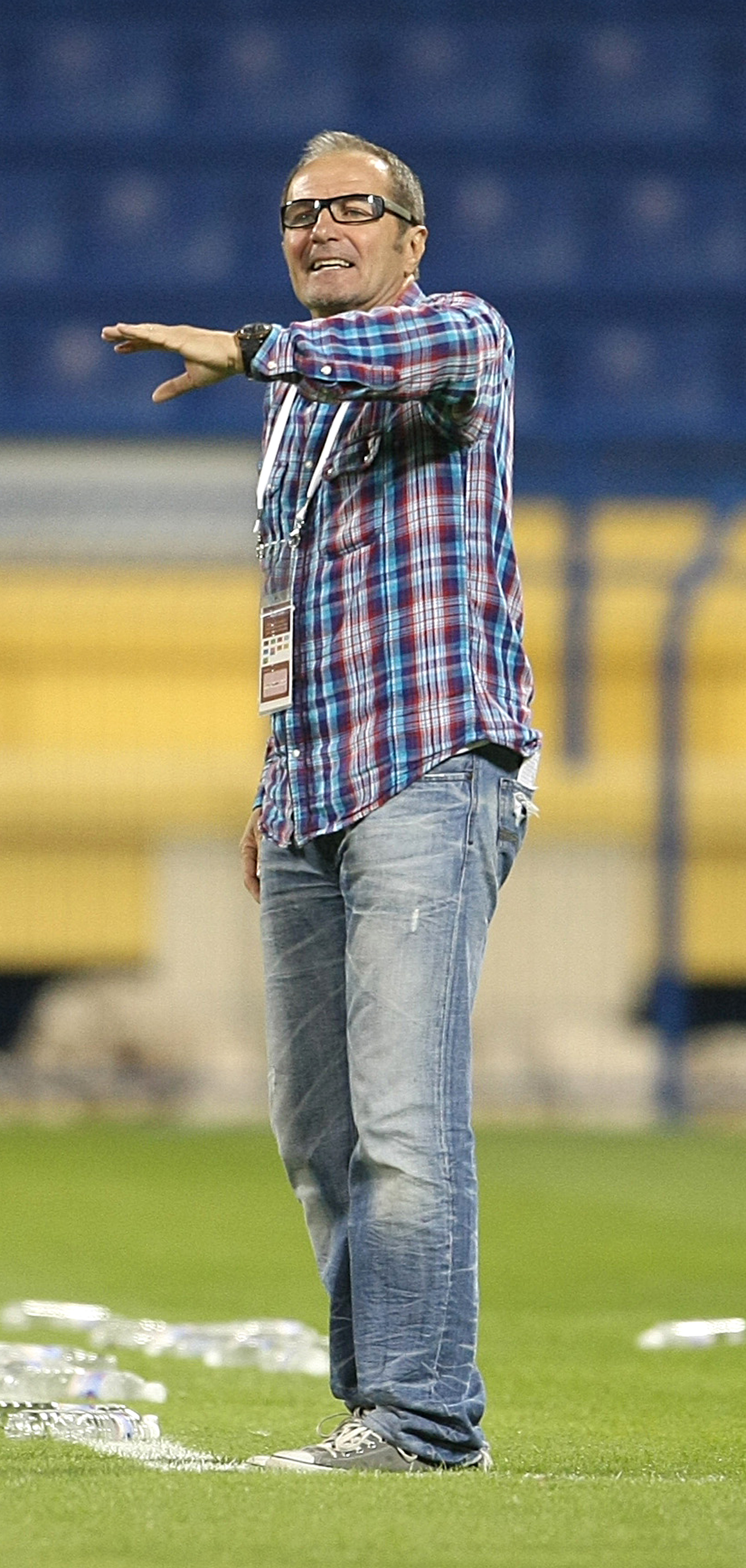 Al Ahli's French coach Simondi Bernard gestures during his team's Qatar Stars League match. Pic by Mohan